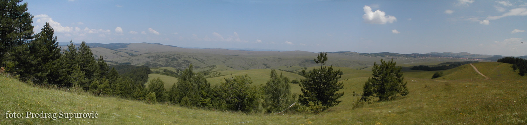 Zlatibor, mountain in Western Serbia